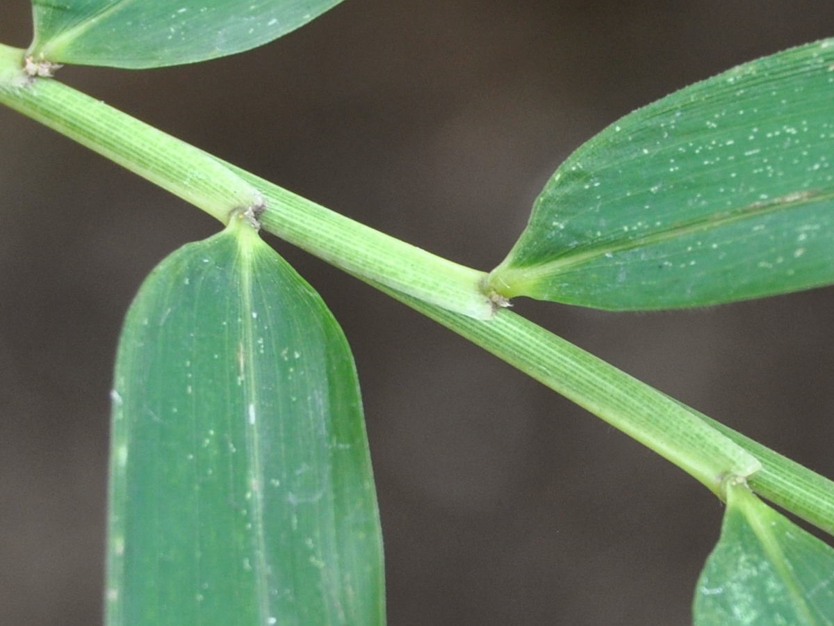 Thai bamboo, Thyrsostachys siamensis; close up to leaf sheaths. From Bogor, West Java, Indonesia.